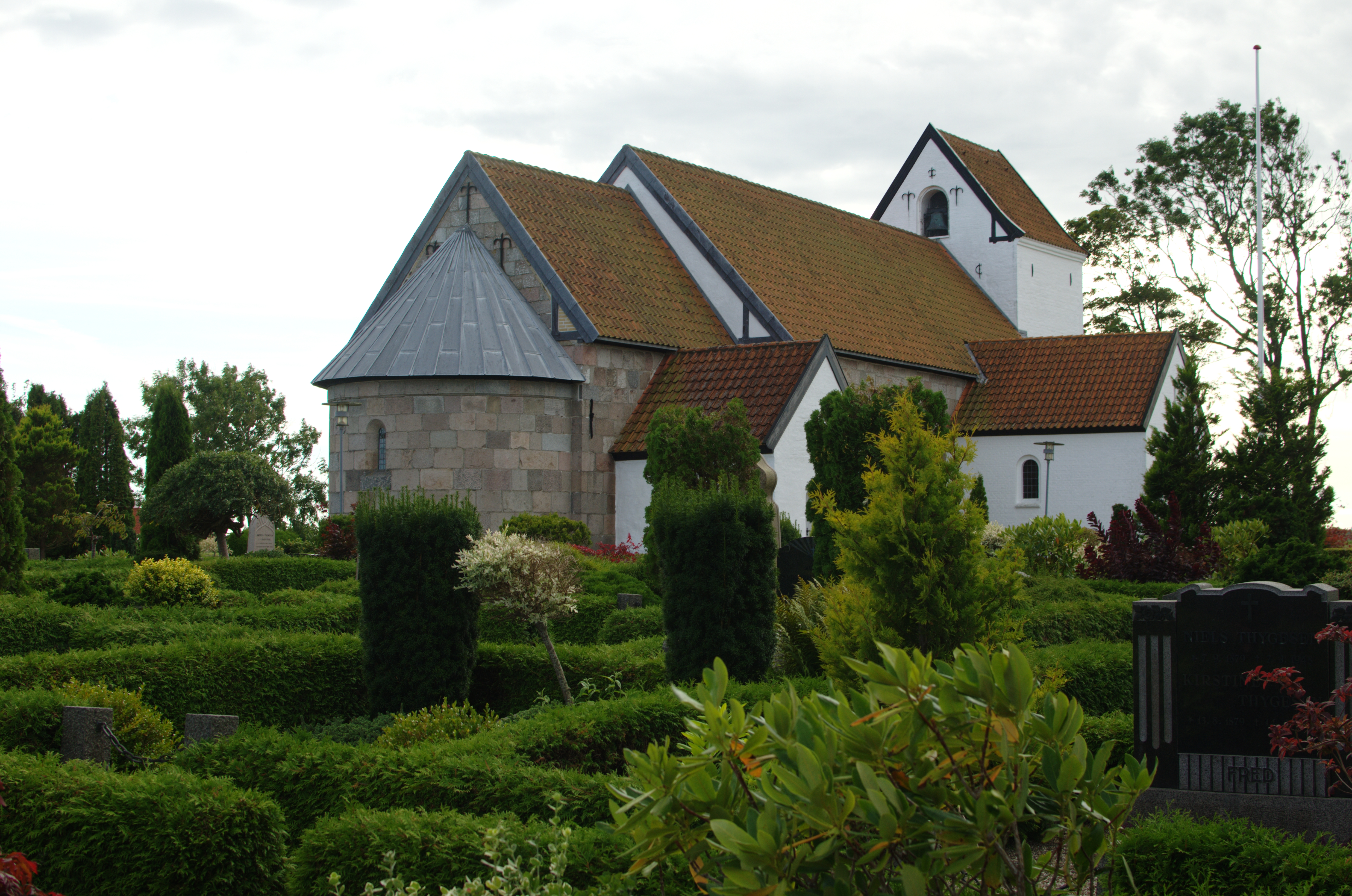 Nøvling Church Aalborg Denmark